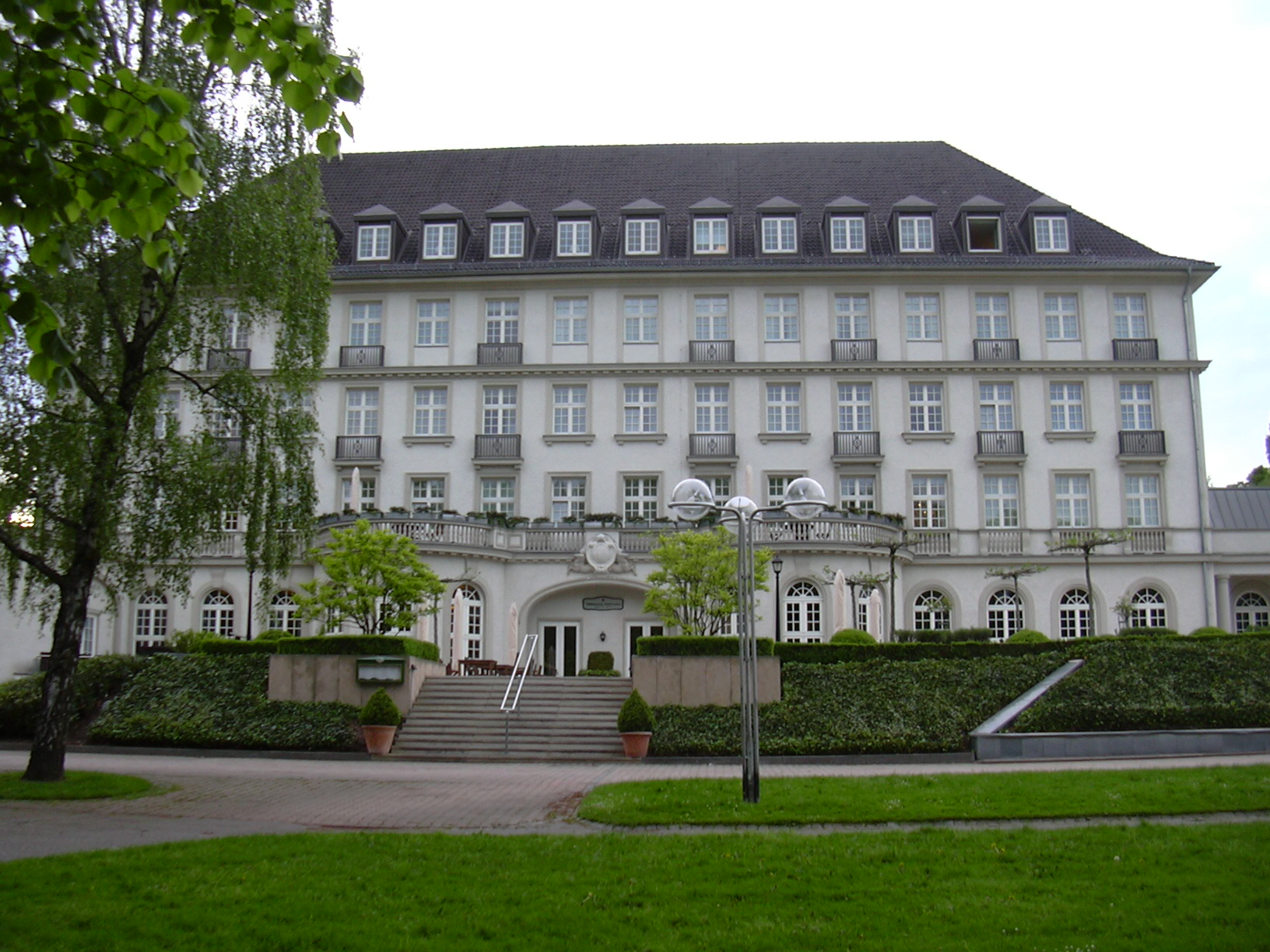 Quellenhof Hotel and Spa, Aachen, Parkseite